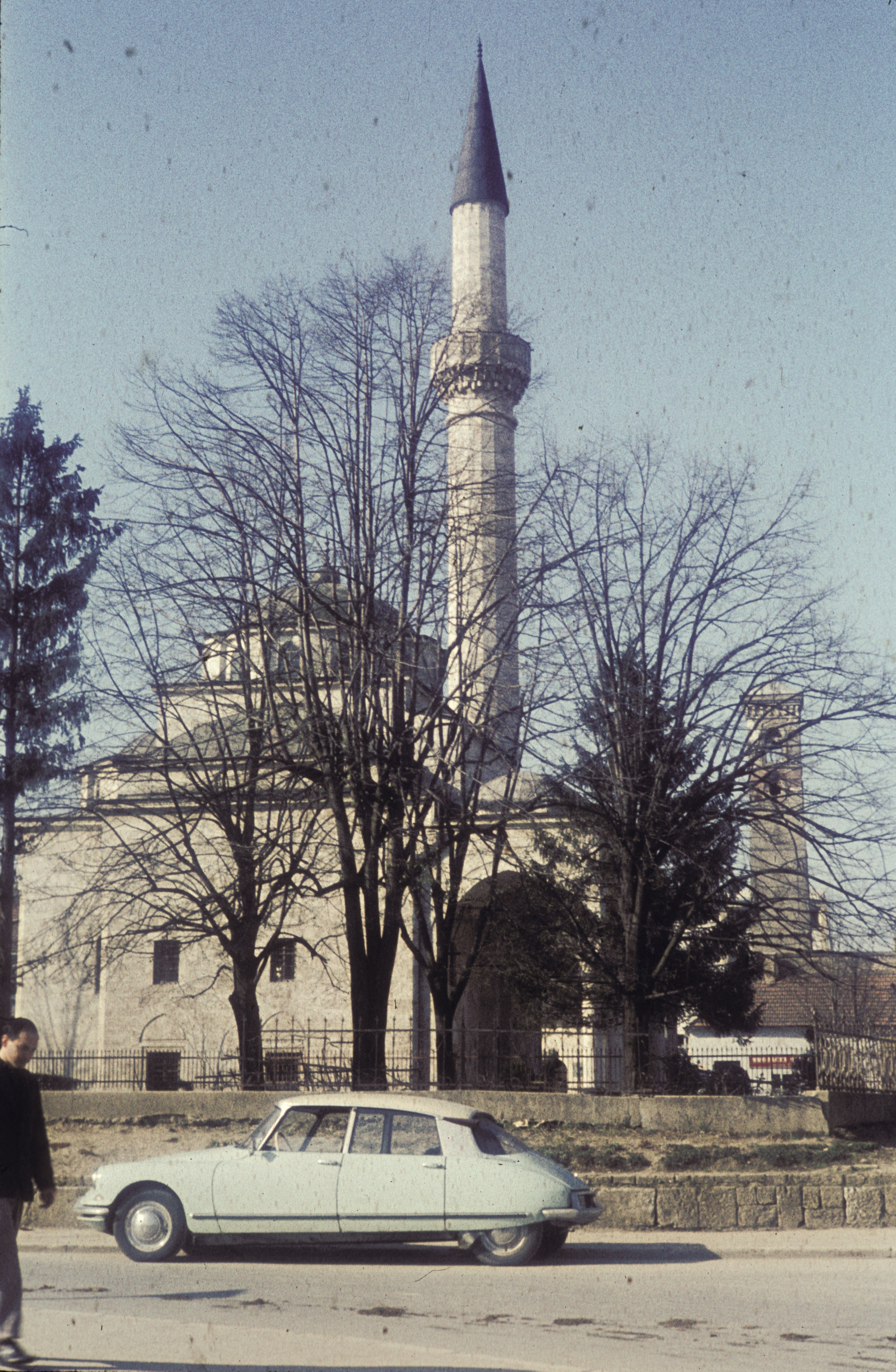 The Ferhadija Mosque in Banja Luka, Yugoslavia (1962).